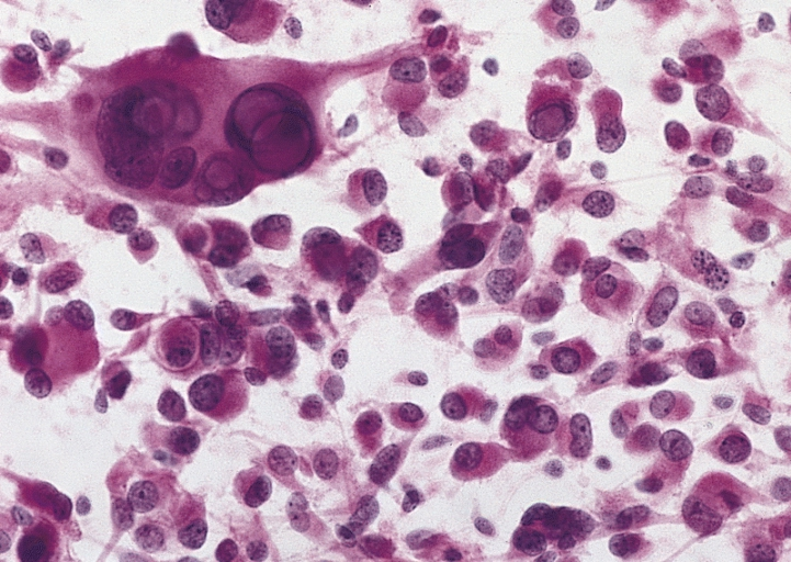 CNS: PLEOMORPHIC XANTHOASTROCYTOMA An astrocytic phenotype, marked nuclear pleomorphism, and absence of mitotic activity are typical cytologic features.